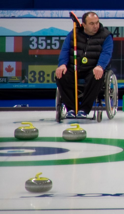 Italy's Andrea Tabanelli, skip for the Italian Wheelchair Curling Team, at the Vancouver Olympic/Paralympic Centre, Vancouver during the 2010 Paralympics